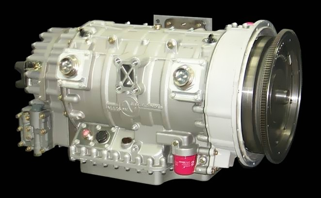 Took the picture